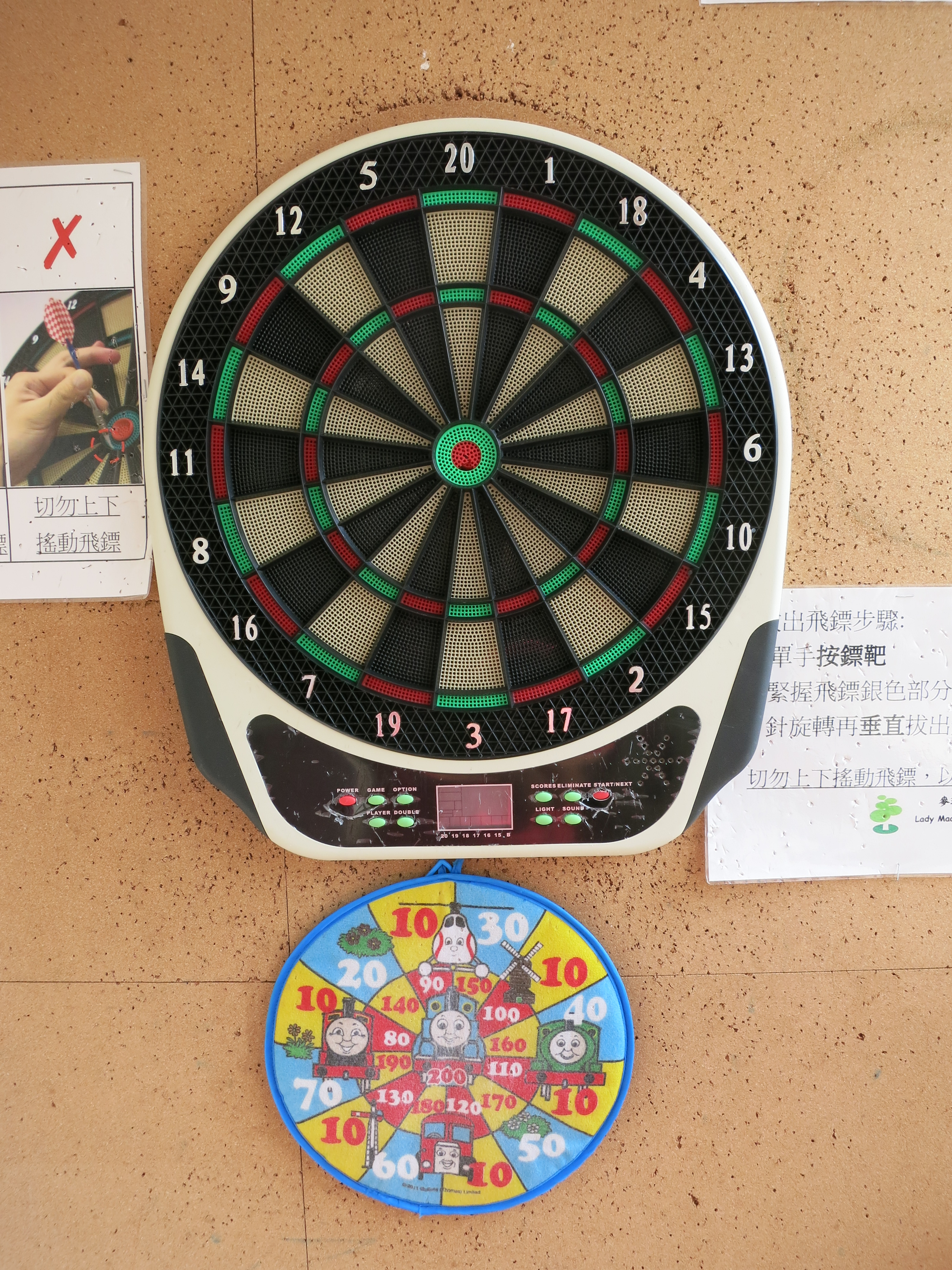 A dart game at club house in holiday camp at sai kung